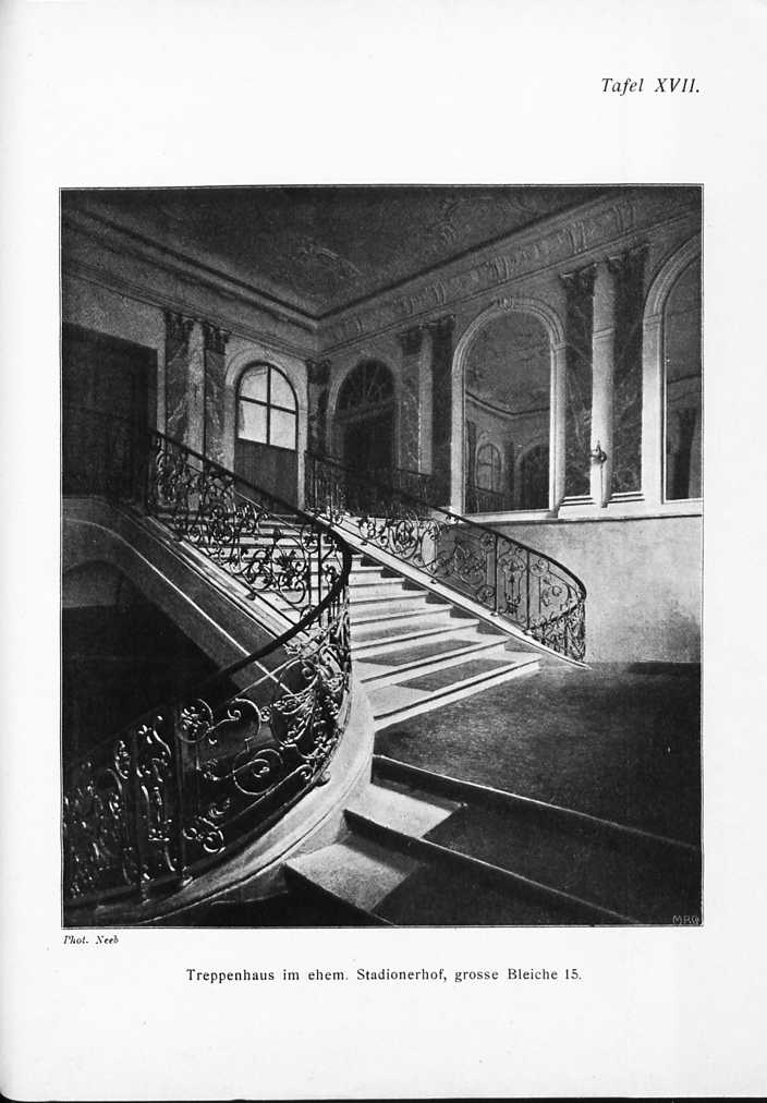 Former staircaise of the "Hôtel de Stadion" in Mainz. Destroyed during the bombing of Mainz in World War II.